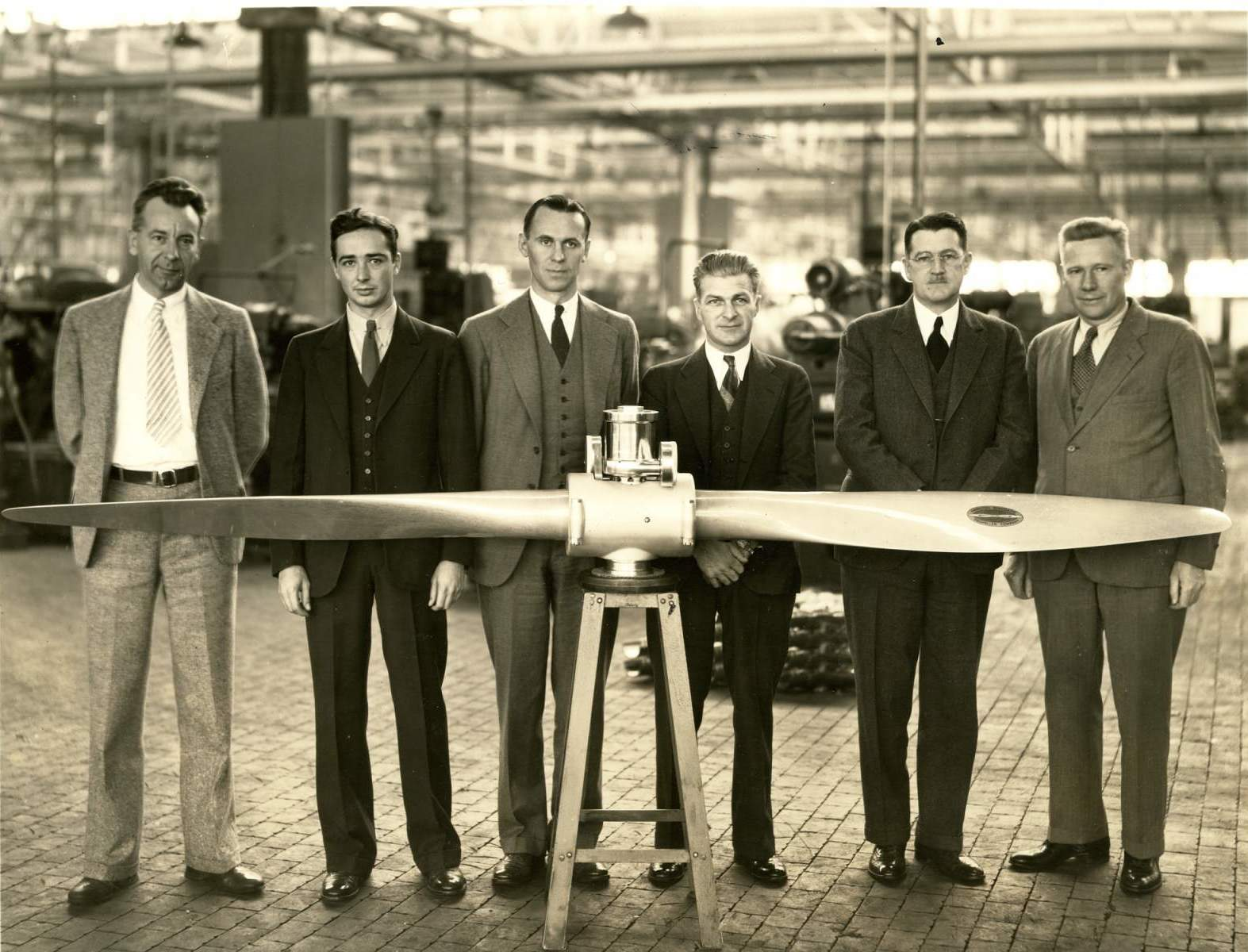 Group poses standing behind the 1,000th Controllable Pitch Propeller produced by Hamilton Standard Propeller Company, Hartford, Connecticut, prior to delivery to the U. S. Navy; 1934. Left to right: F. G. Mesny, Naval Inspector; Erle Martin, Assistant Chief Engineer, Hamilton Standard; Sidney A. Stewart, Vice-President, Hamilton Standard; Lieutenant F. B. Johnson, Inspector of Naval Aircraft in Hartford; Raycroft Walsh, President, Hamilton Standard; and Frank W. Caldwell, Chief Engineer, Hamilton Standard